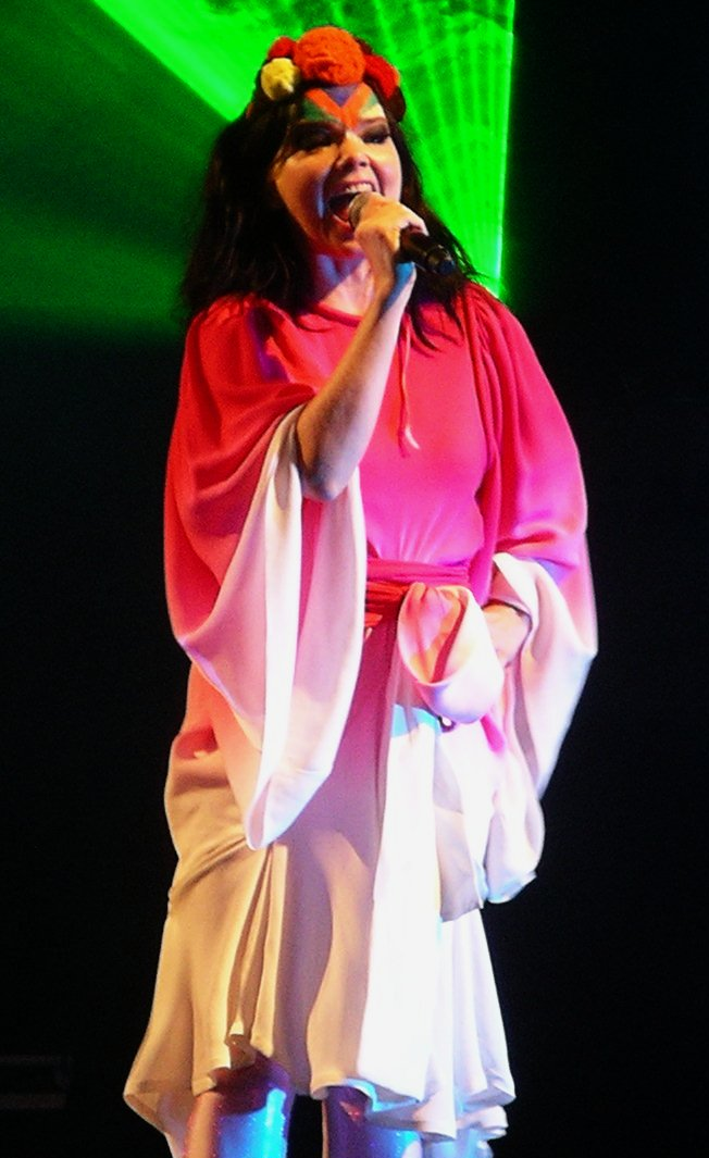 Bjork live in Amsterdam, 2007-07-08, Volta tour. Better large. Shot with a crappy compact camera due to entry restrictions. 2007-07-08_imgp0022